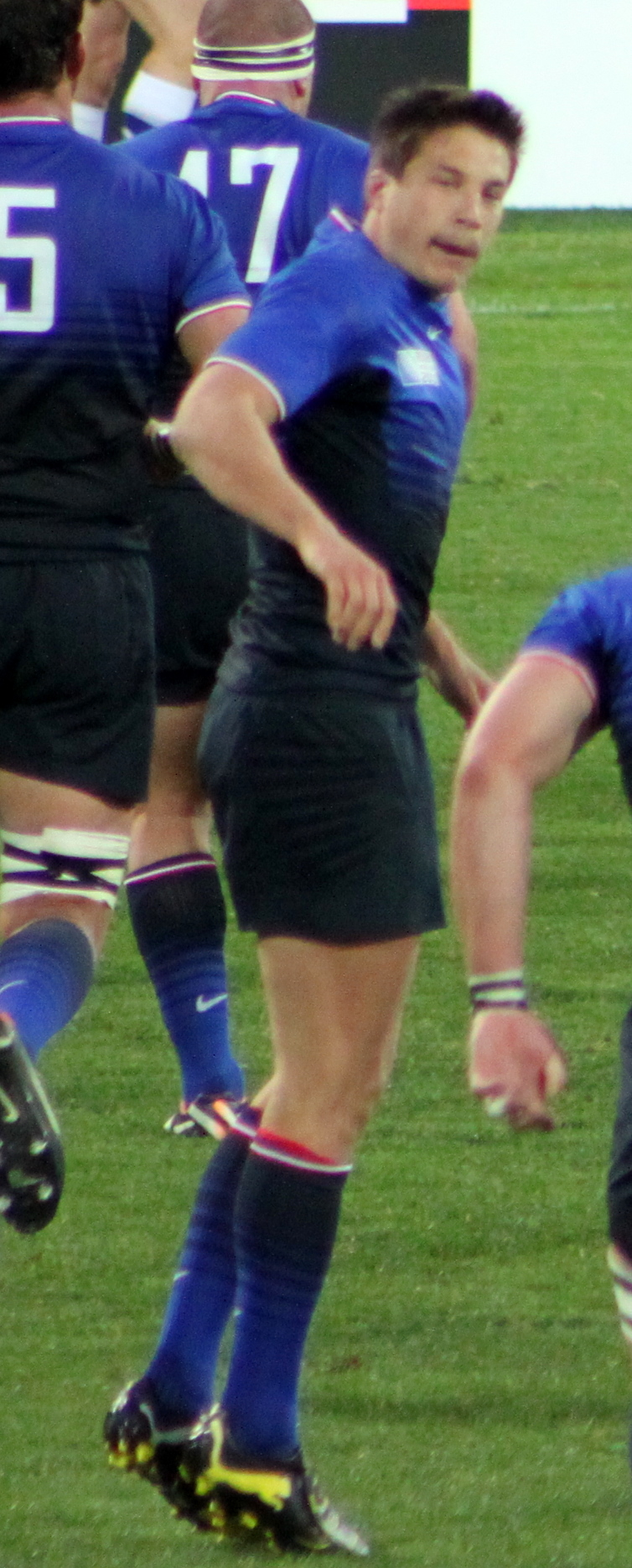 French rugby union player François Trinh-Duc during 2011 Rugby World Cup match against Tonga.